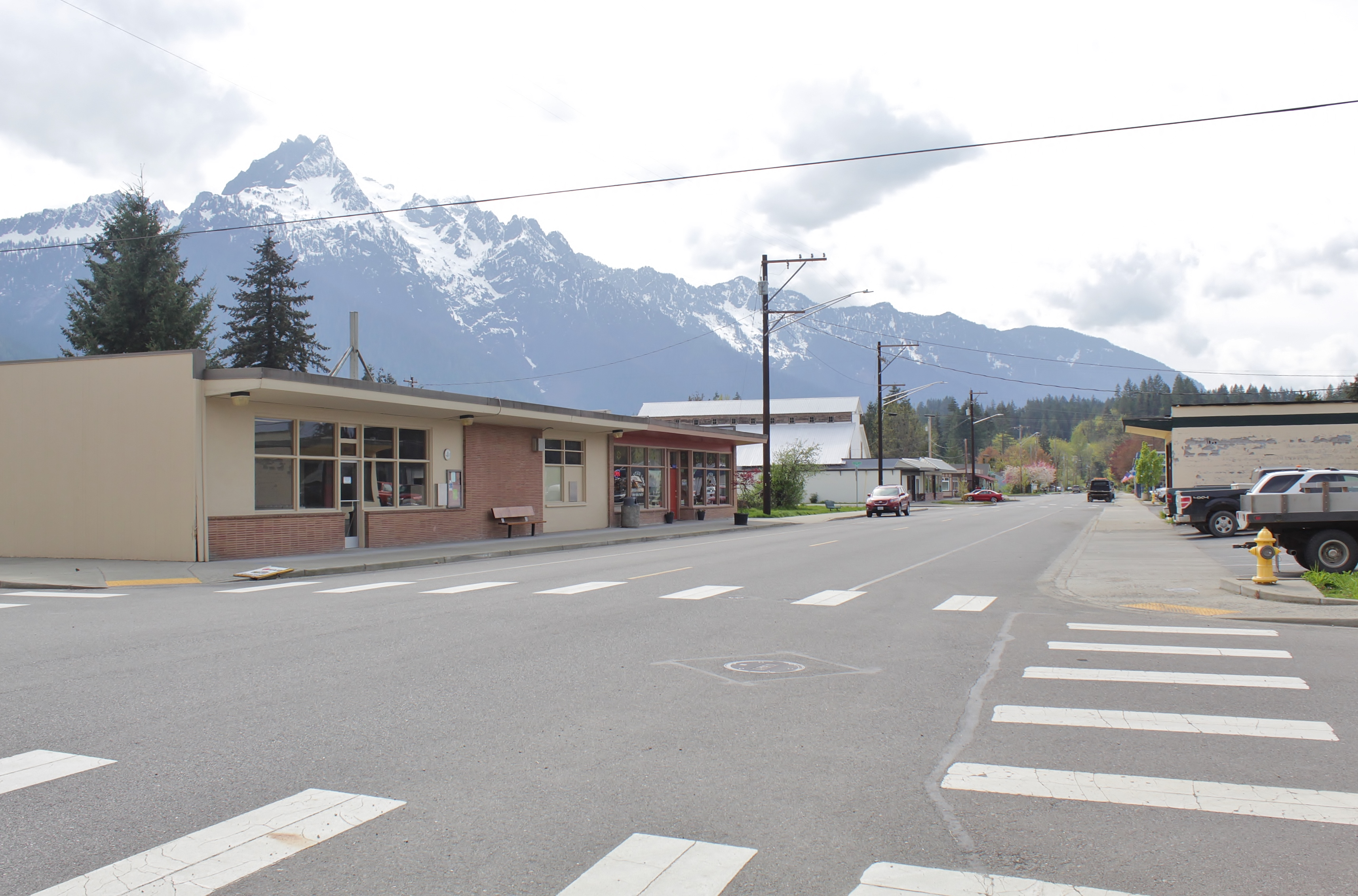 Looking west on Darrington Street in downtown Darrington, Washington from Emens Avenue.